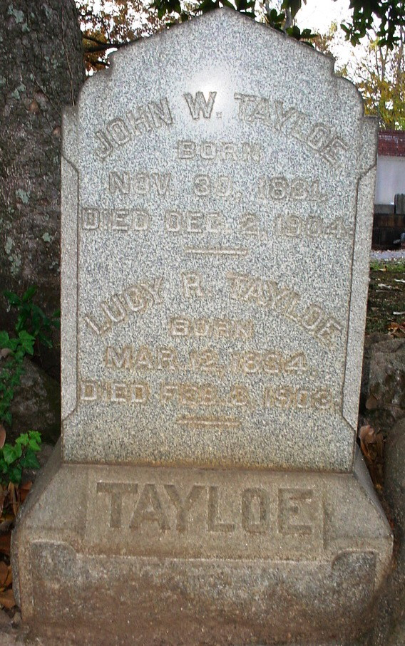 Son of George Plater Tayloe. Maj in the Confederate Army